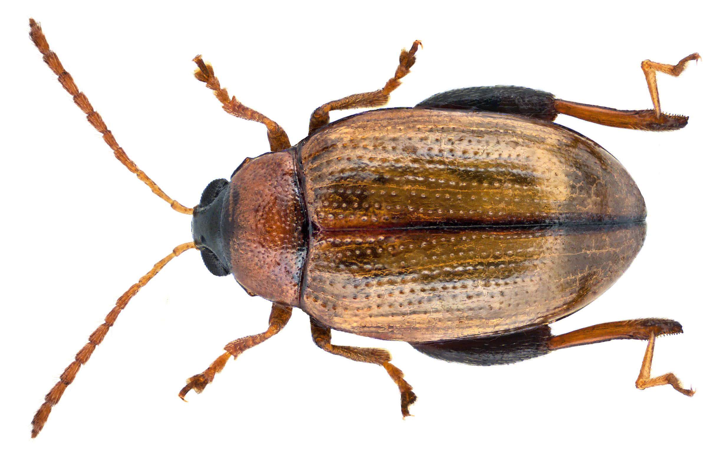 Family: Chrysomelidae Size: 2,6 mm (2,0 to 2,6 mm) Origin: Europe Ecology: lives on Solanaceae Location: Germany, Oberpfalz, Pressath, leg.. G.Uhmann, 18.XI.1967; det. U.Schmidt, 1970 Photo: U.Schmidt, 2014